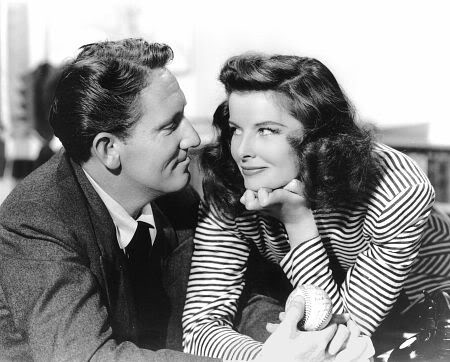 Publicity photograph for the film Woman of the Year, featuring its stars Spencer Tracy and Katharine Hepburn.